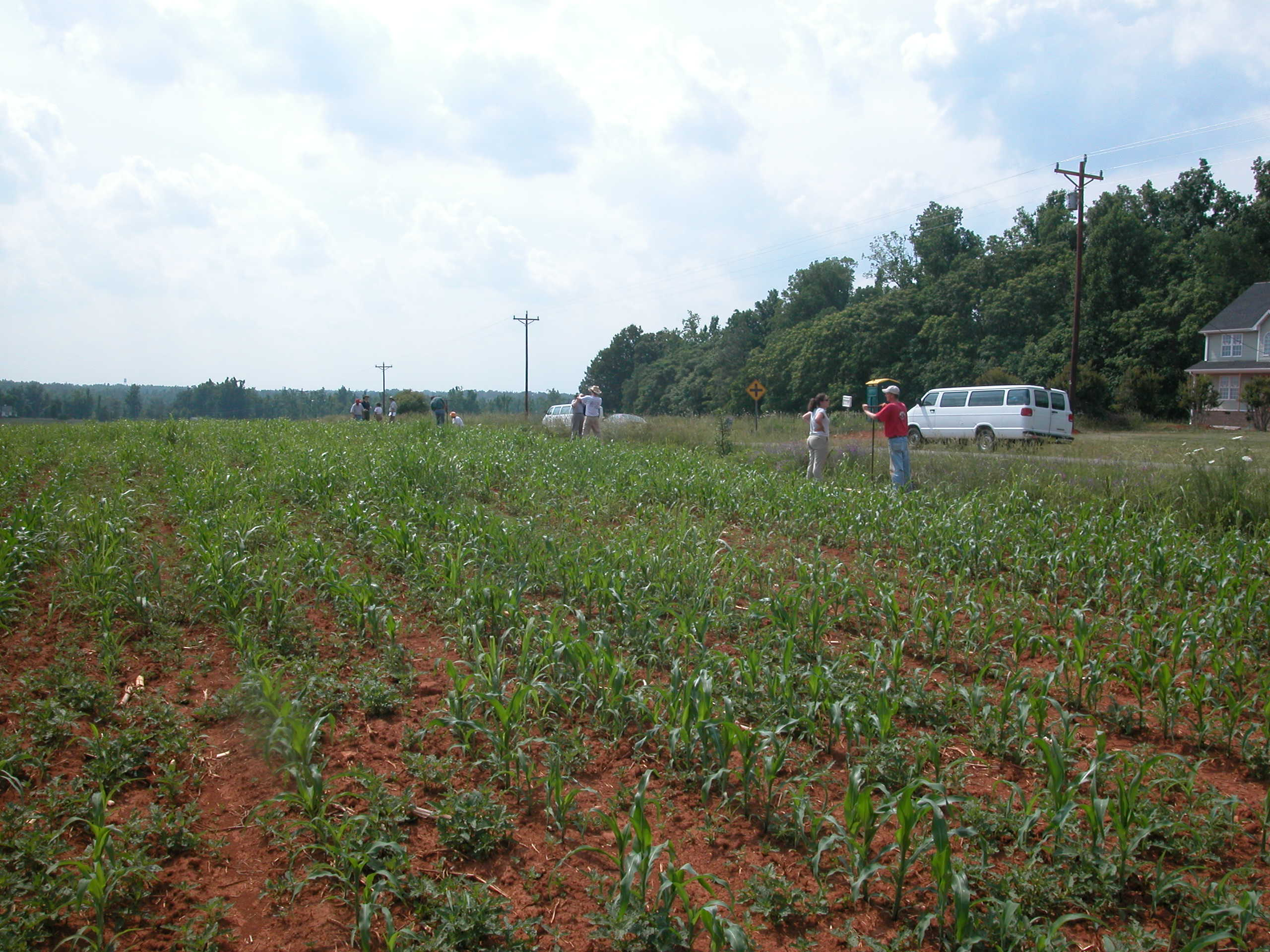 Photo showing a type of soil known as ultisol, common throughout the American South (especially near the piedmont), and colloquially known as "red clay soil". Photo taken in the Cornfield of Piedmont region of North Carolina.